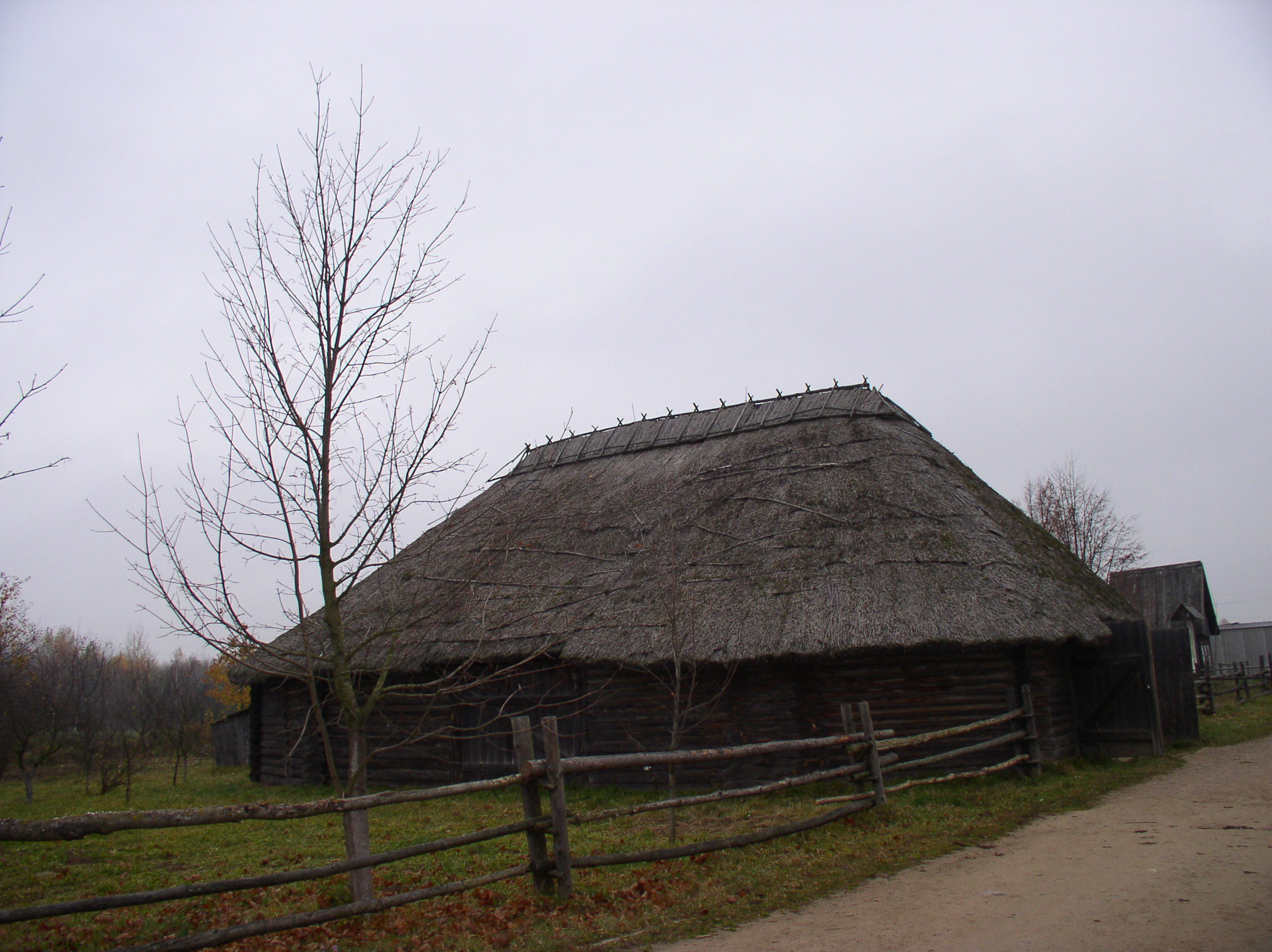 House from Central Belarus. State museum of folk architecture and life, Belarus.